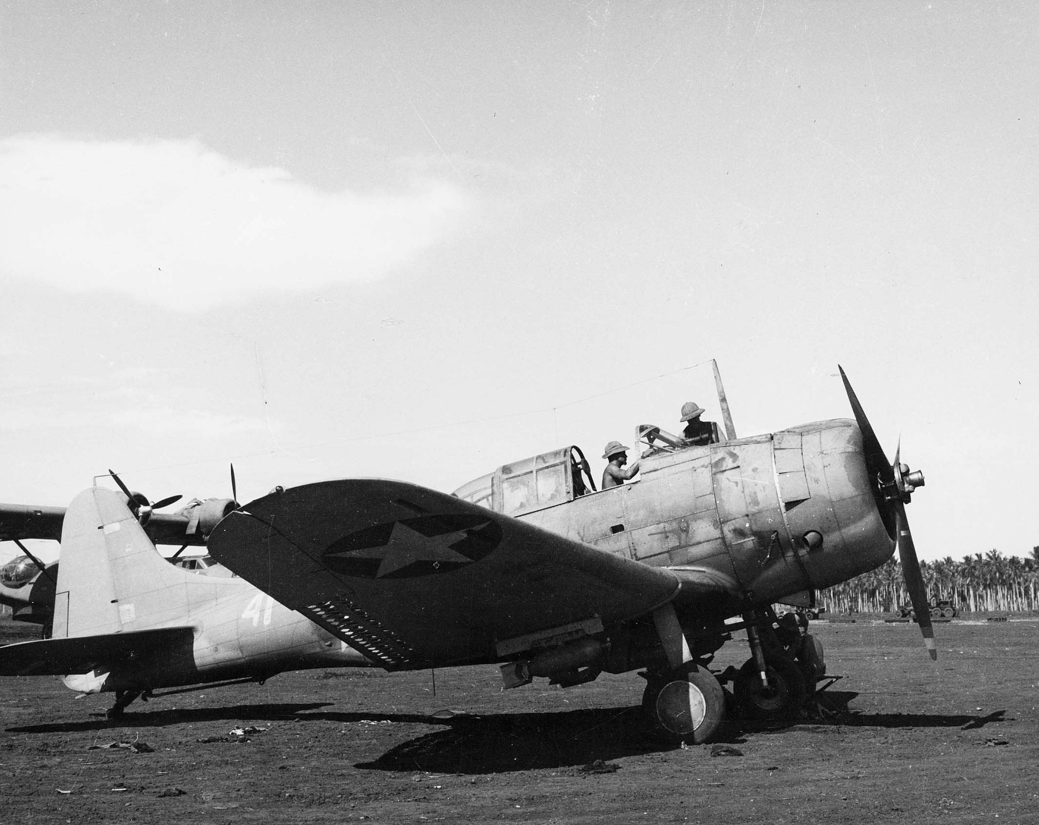 A U.S. Marine Corps Douglas SBD-4 Dauntless of Marine scout bomber squadron VMSB-233 at Henderson Field on Guadalcanal, Solomon Islands, in 1943. Note the bombload and the rough handpainted side number on the fuselage. VMSB-233 was established on 1 May 1942, and arrived at Guadalcanal in January 1943. The squadron was later redesignated VMTB-233 and operated during the Okinawa campaign from the escort carrier USS Block Island (CVE-106).